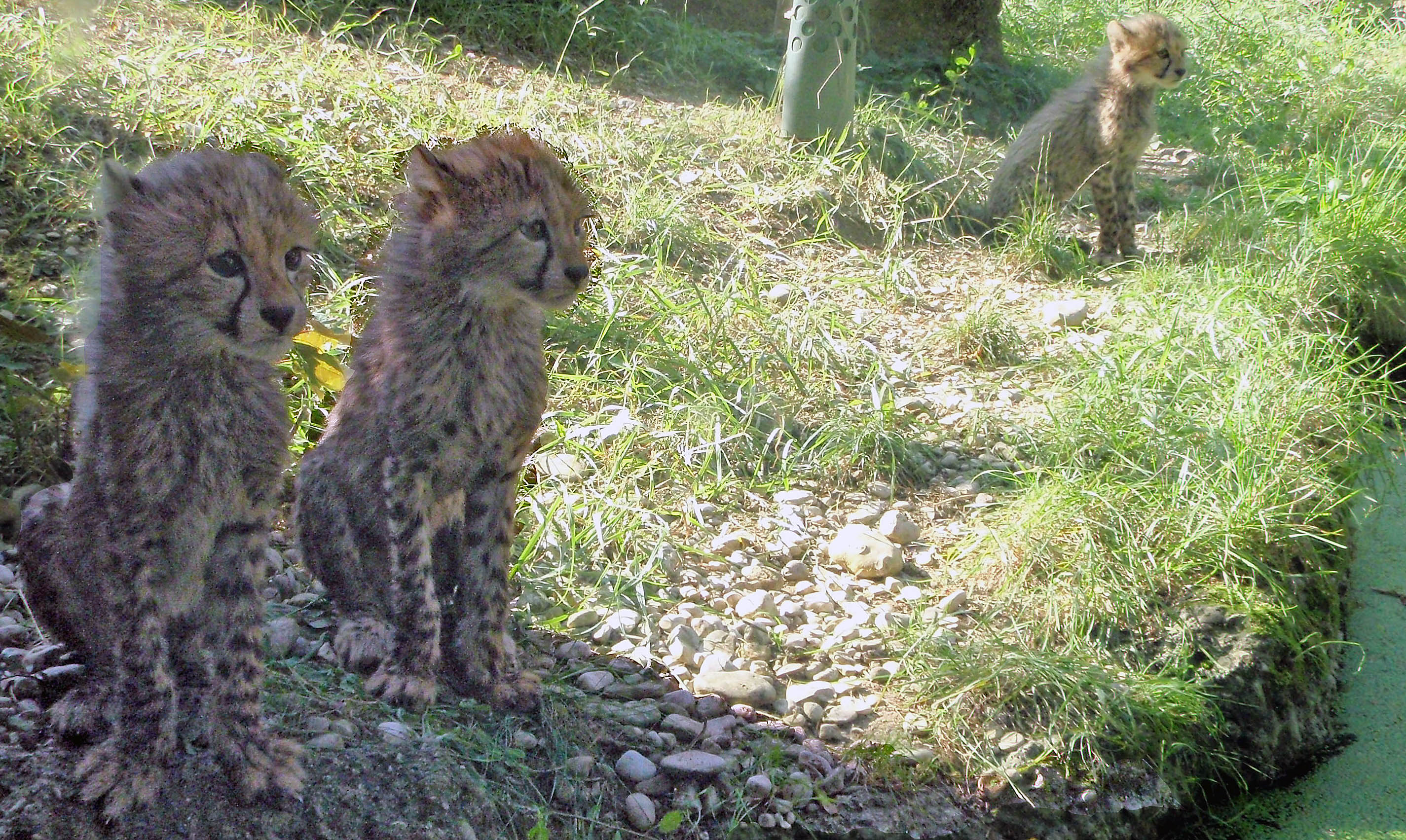 Young cheetas at Zoo Basel